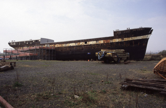 The City of Adelaide, the world's oldest surviving clipper ship, seen in April 2005 at the Scottish Maritime Museum in Irvine, North Ayrshire.